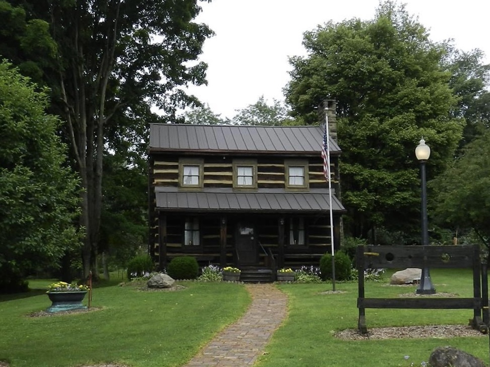 Log Cabin Museum East Palestine, Ohio